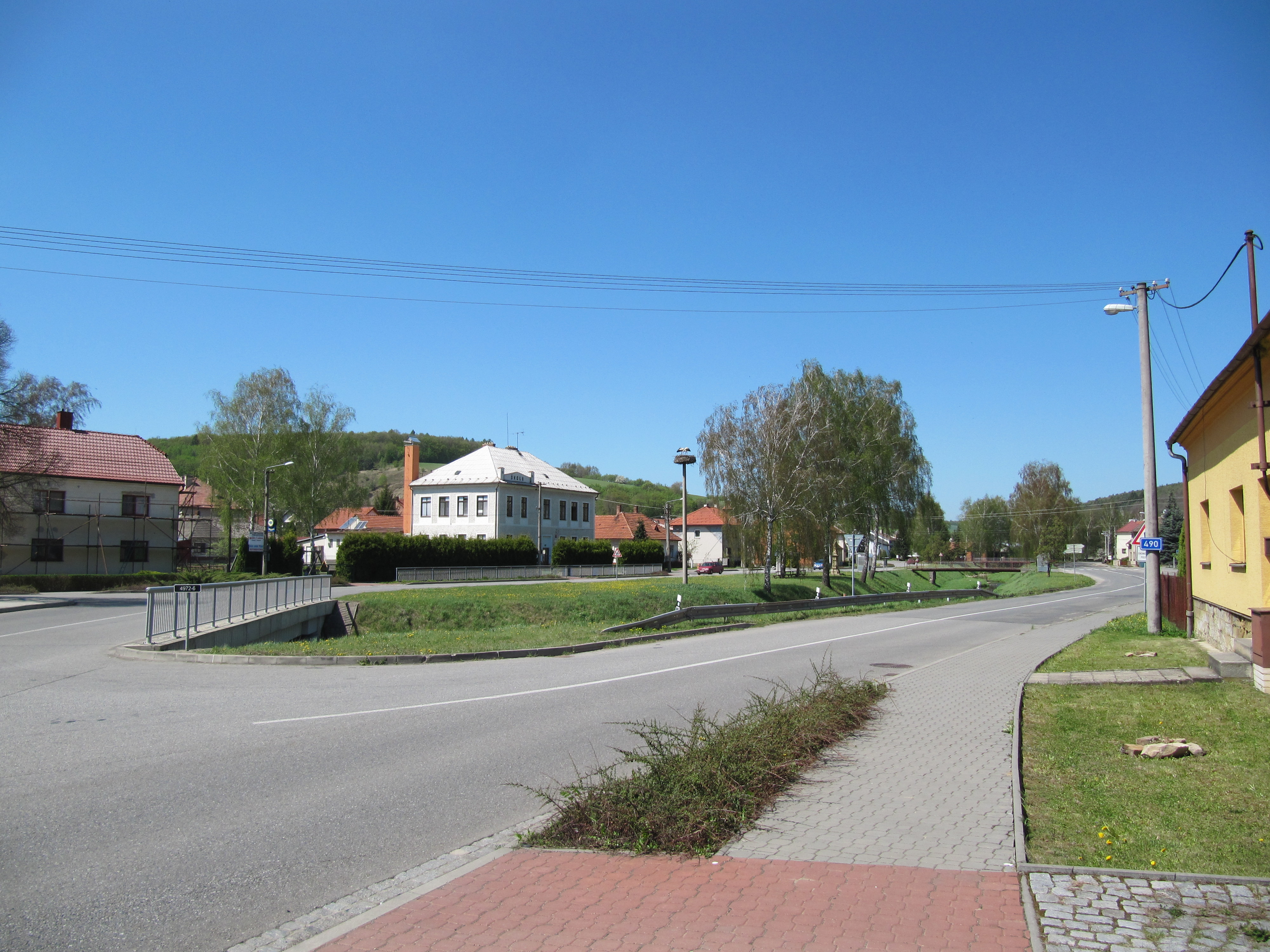 Biskupice in Zlín District, Czech Republic. Center of the village.